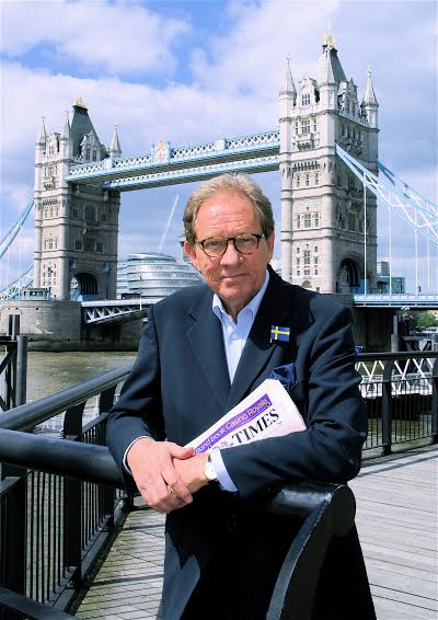 Per Nordangård